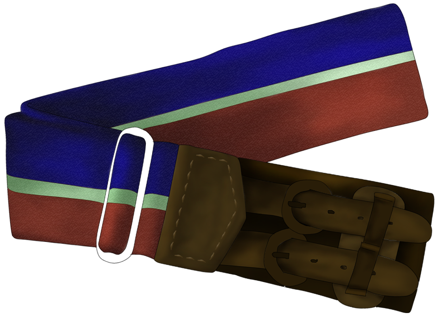 Pre-2007 Stable belt of the RAF, newer versions feature a decorated buckle rather than the simple loop. Created for the Stable Belt article.